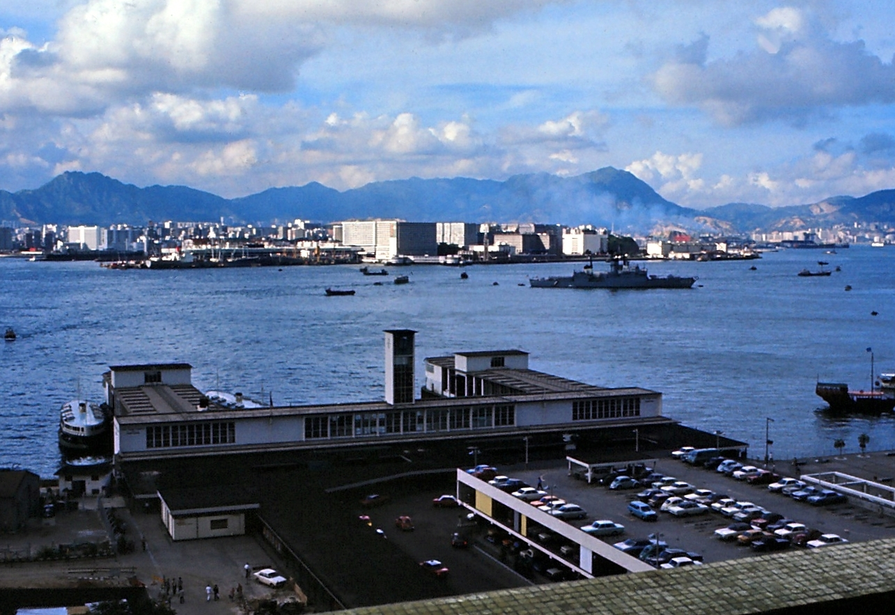 Edinburgh Place Ferry Pier in 1971